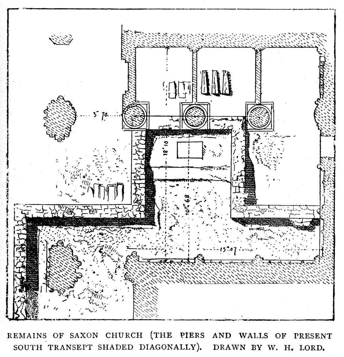 Picture of the remains of Saxon Church in today's southern transept of the Peterborough Cathedral